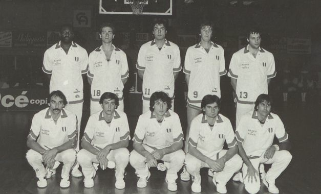 The Pallacanestro Banco di Roma Virtus team before the kick-off of the European Champions Cup match against Limoges CSP in 1983 at the Palais des Sports de Beaublanc.